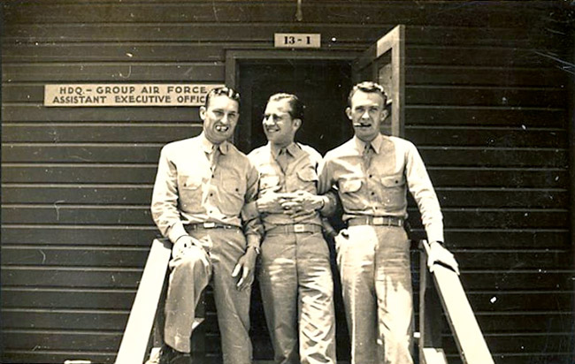 Former federal judge Harry Claiborne during World War II